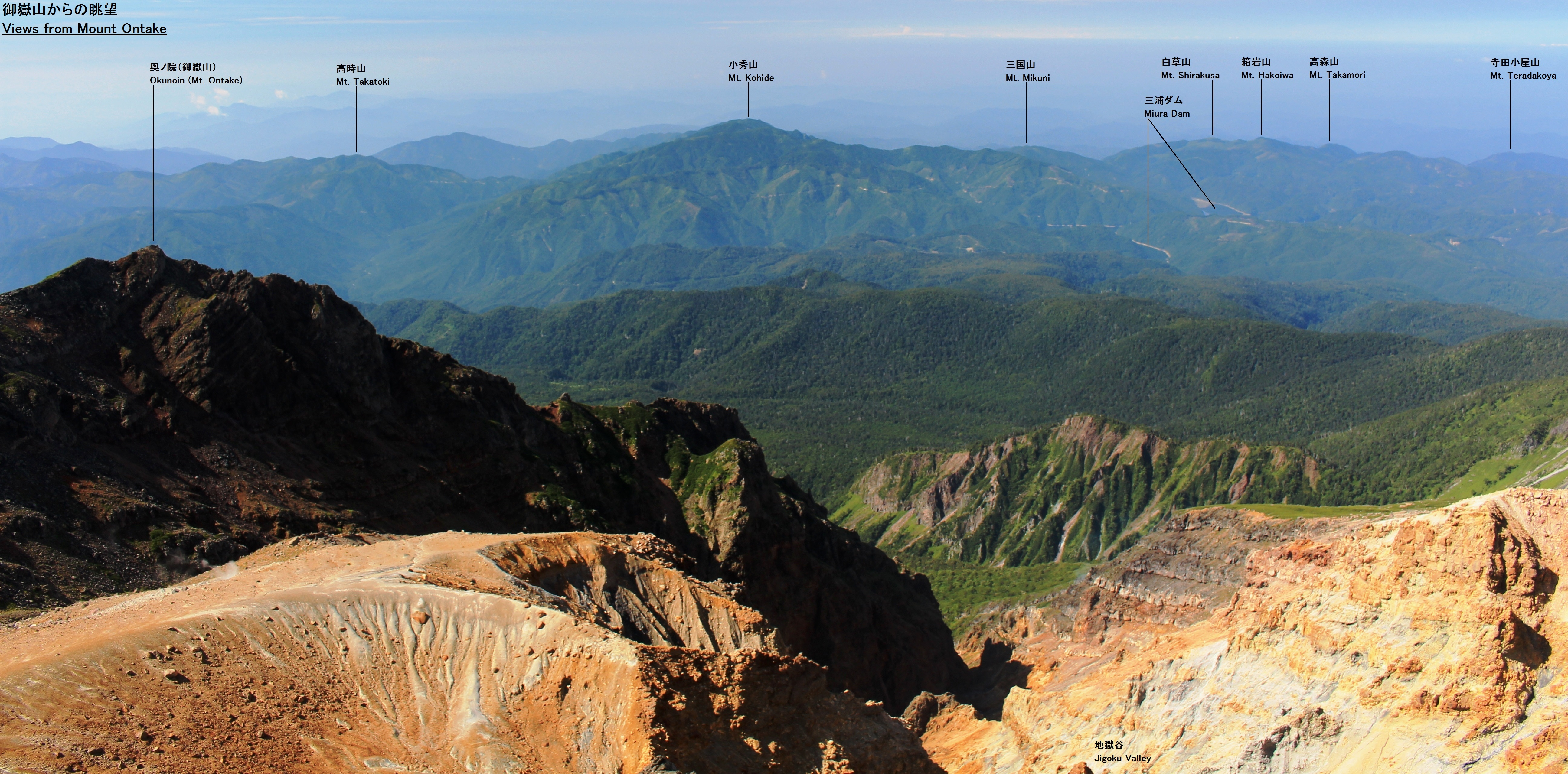 Atera Mountains around Mount Kohide seen from Mount Ontake with note.